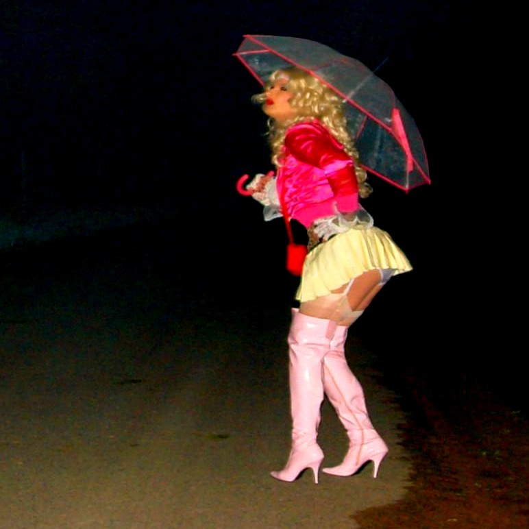 transhooker katjapueppi working on street